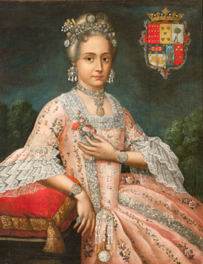 Rosa de Salazar y Gabiño, Countess of Monteblanco and Montemar